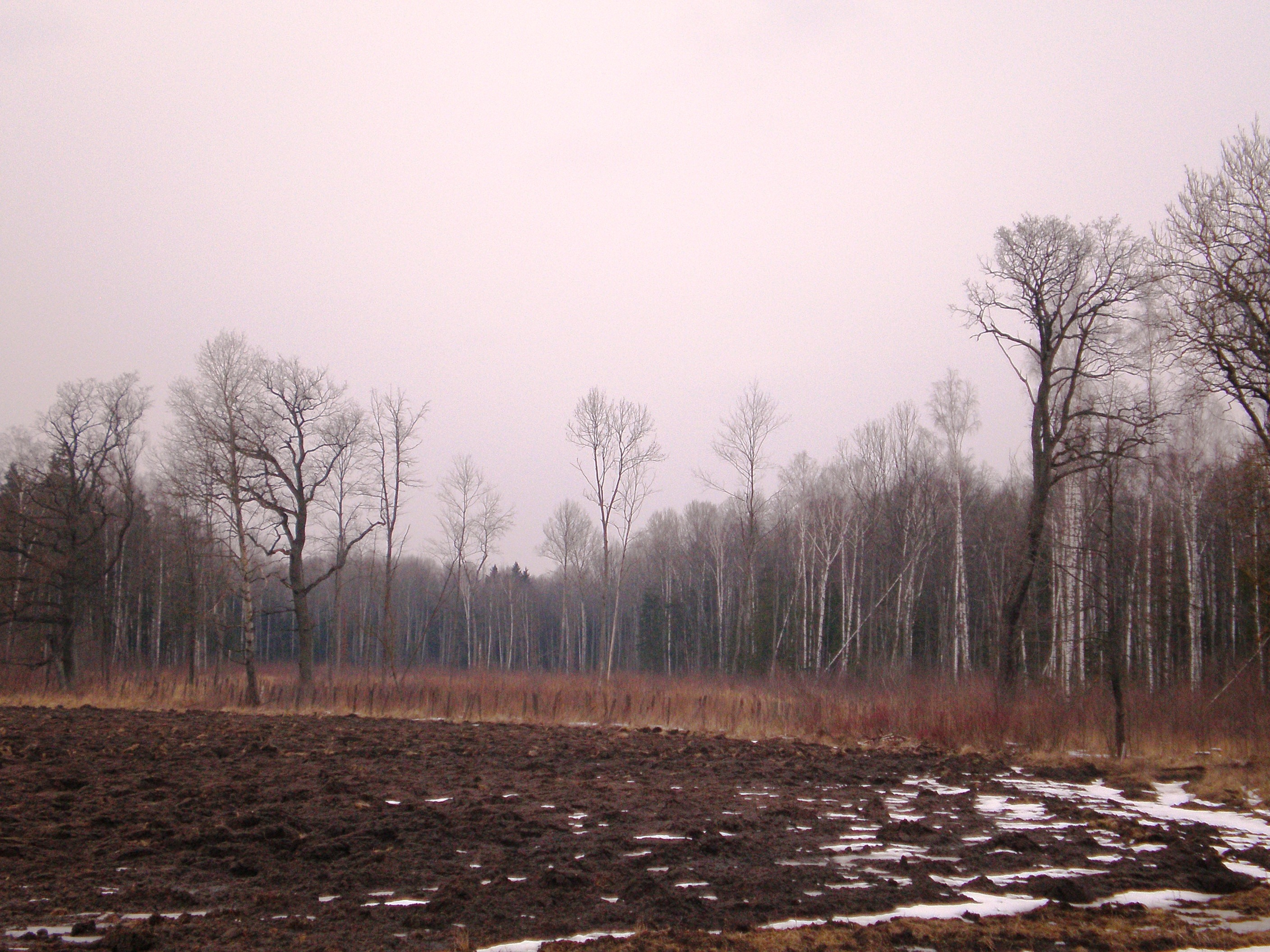 Dotnuva-Krakės forest, Kėdainiai district, Lithuania